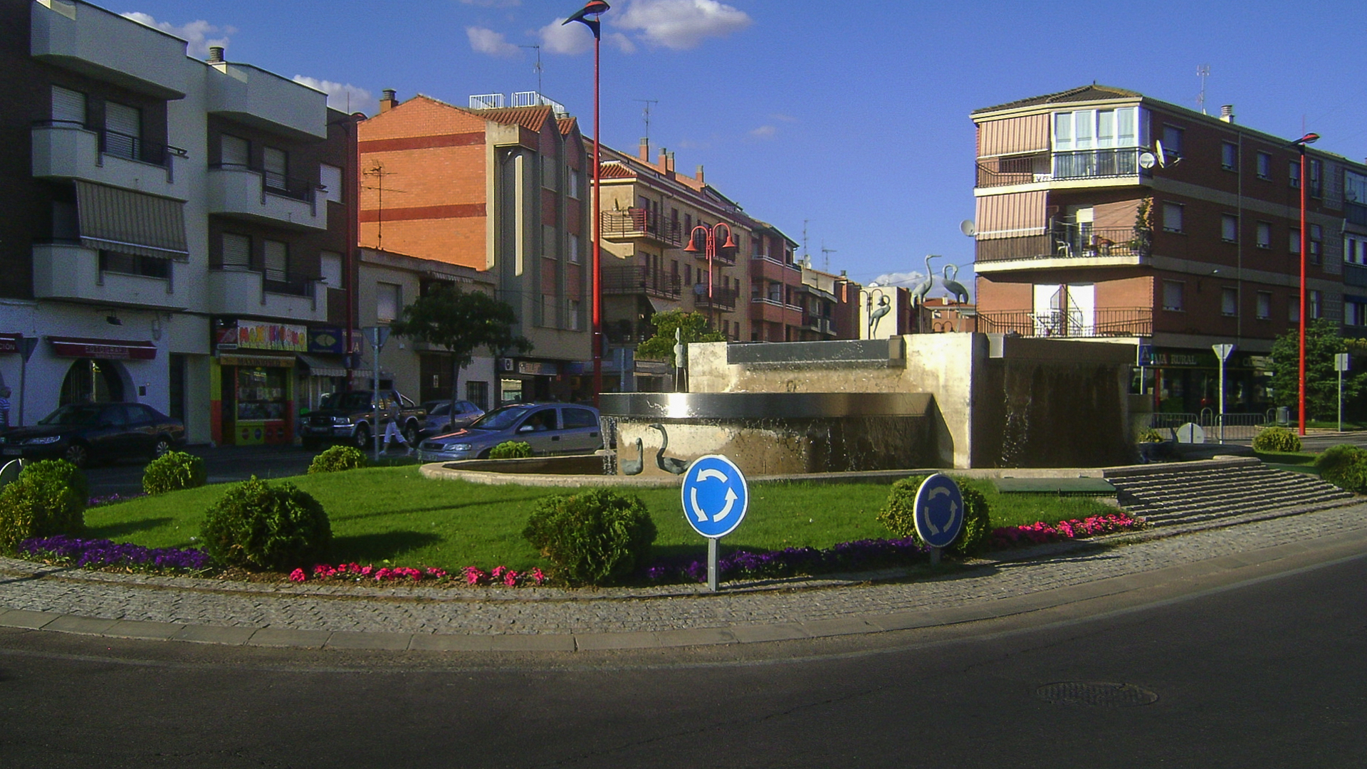 Santa Marta de Tormes (Salamanca)